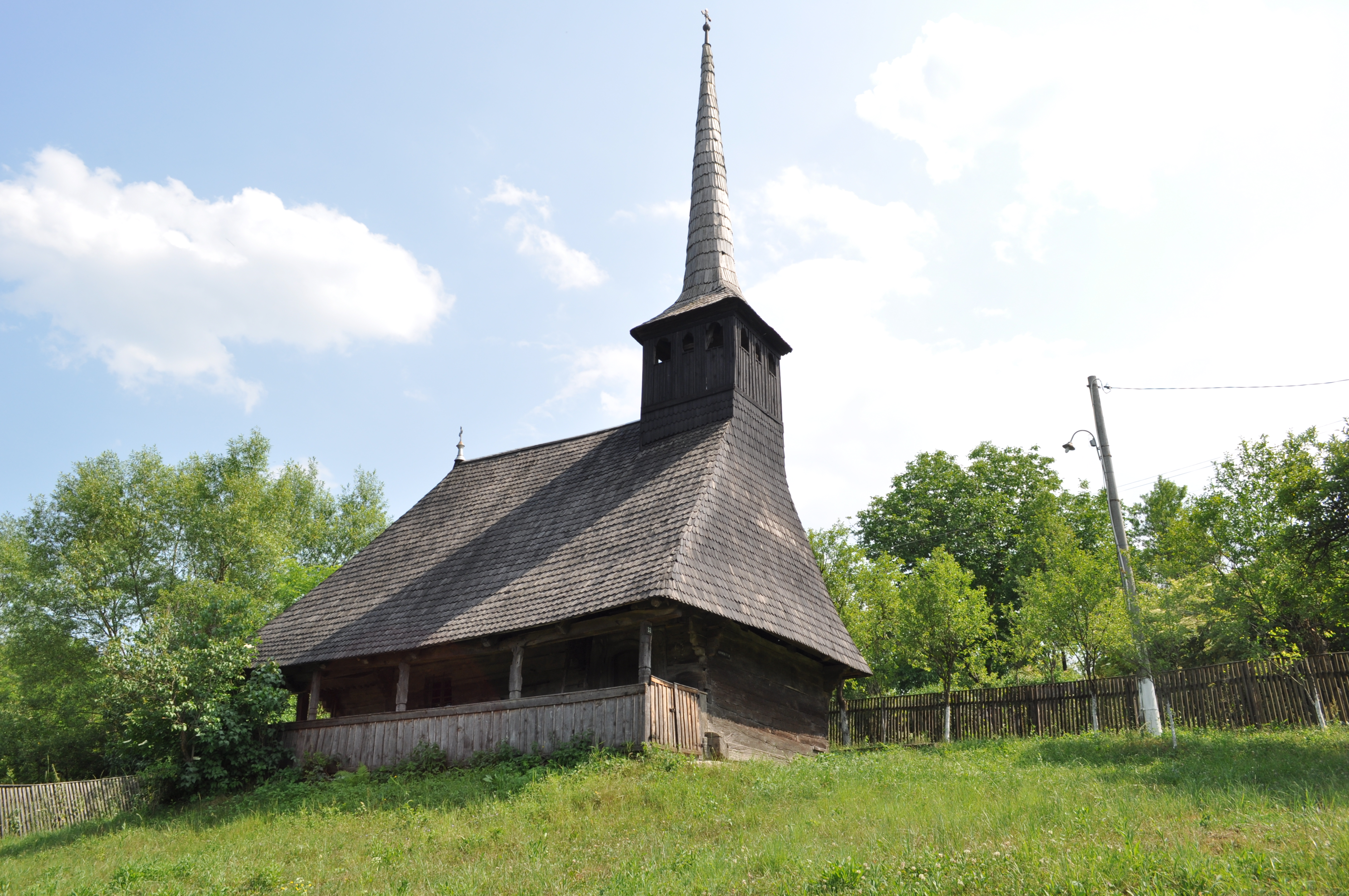 Wooden church in Cremenea, Cluj countyRomână: Biserica de lemn din Cremenea, județul Cluj